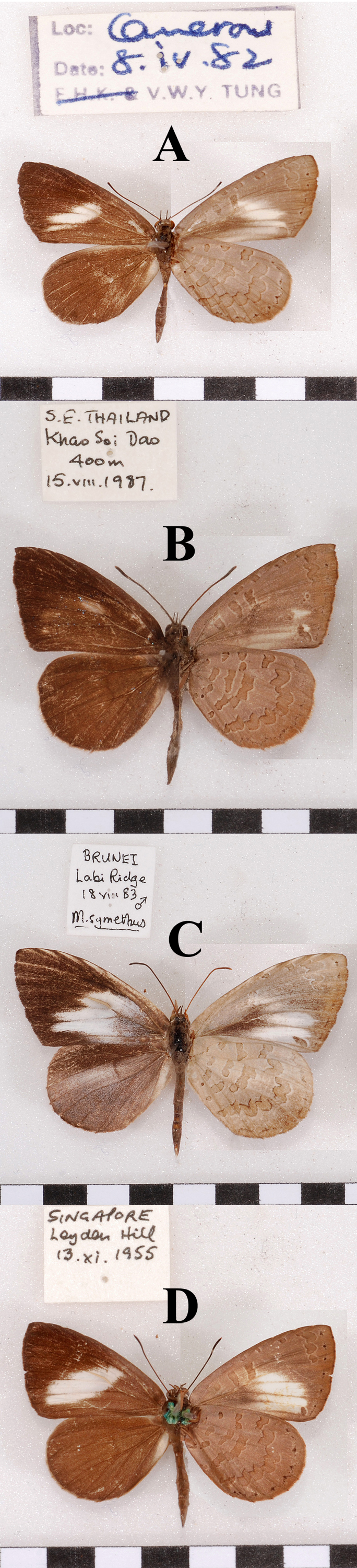 Male Representatives of 4 Species Groups of Miletus: A. Boisduvali Gp. M. biggsii, W. Malaysia. B. Chinensis Gp. M. chinensis, Thailand. C. Symethus Gp. M. symethus, Brunei. D. Zinckenii Gp. M. gopara, Singapore.